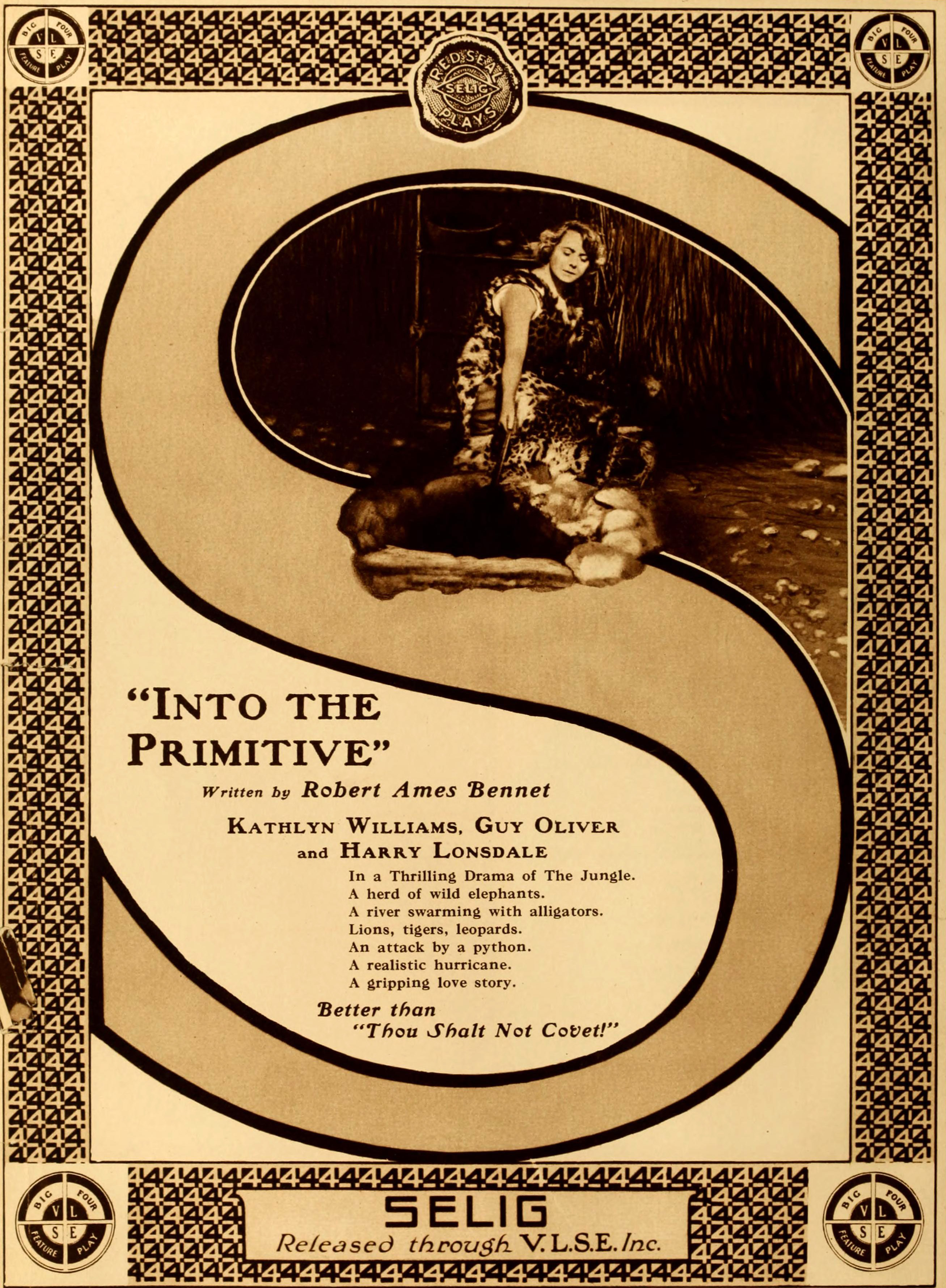 Advertisement in The Moving Picture World